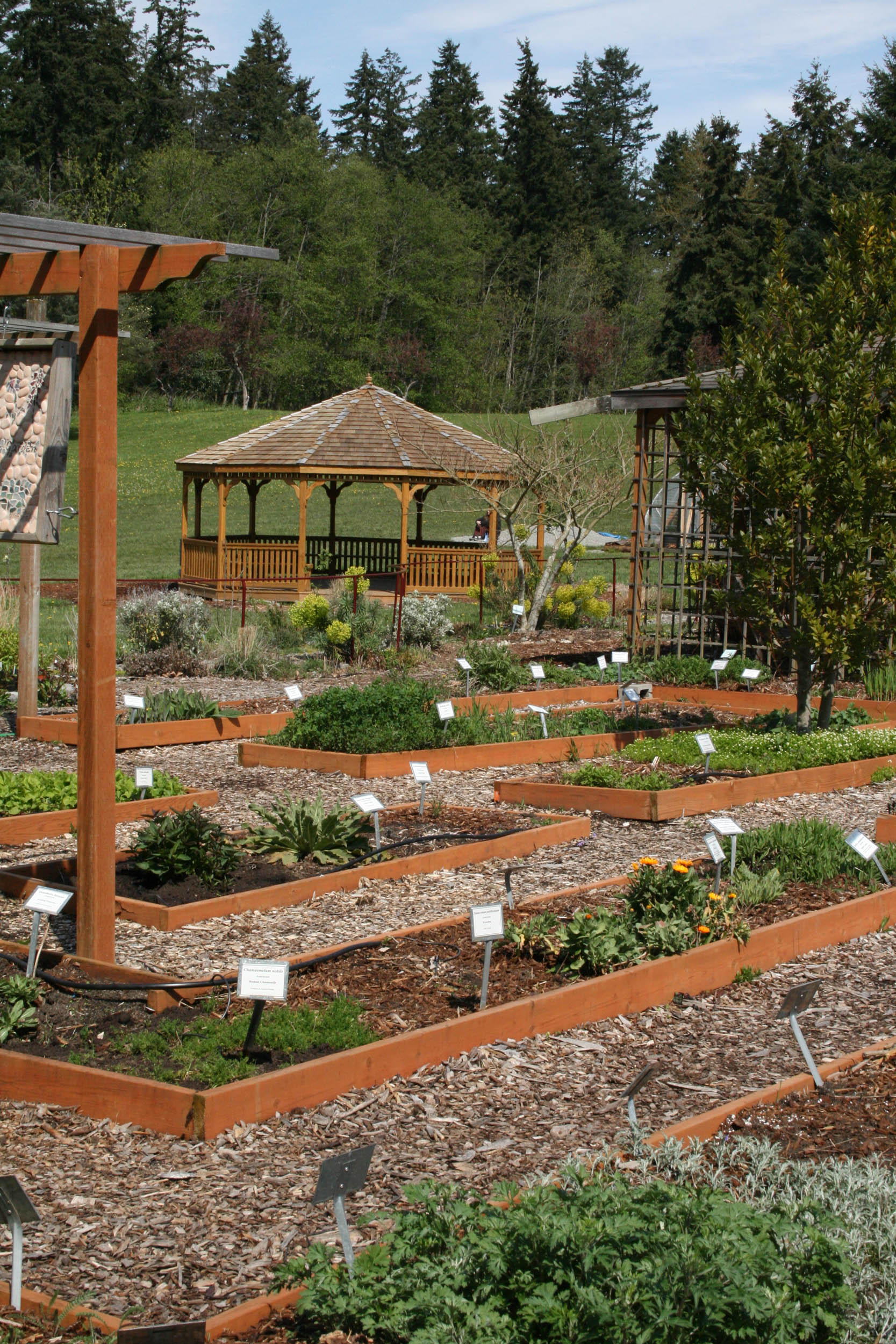 Bastyr University medicinal herb garden featuring over 350 plant species